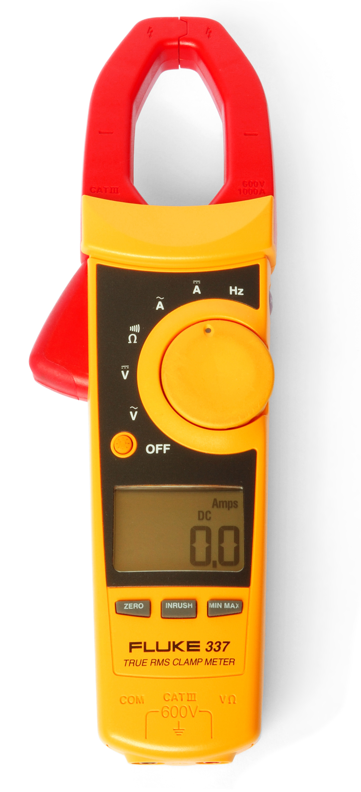 Clamp meter AC/DC, type Fluke 337. Measuring range 0 to 999.9 A.